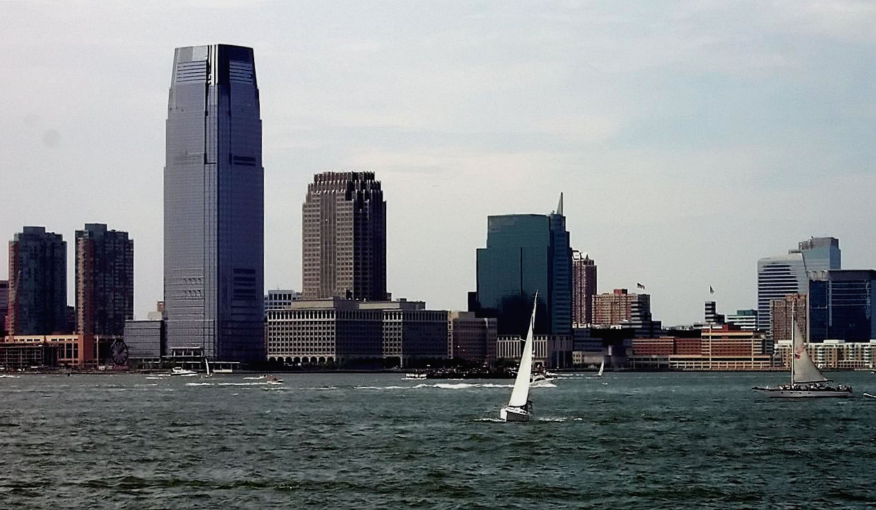 New York Harbor, looking towards Jersey City from the Staten Island Ferry. {